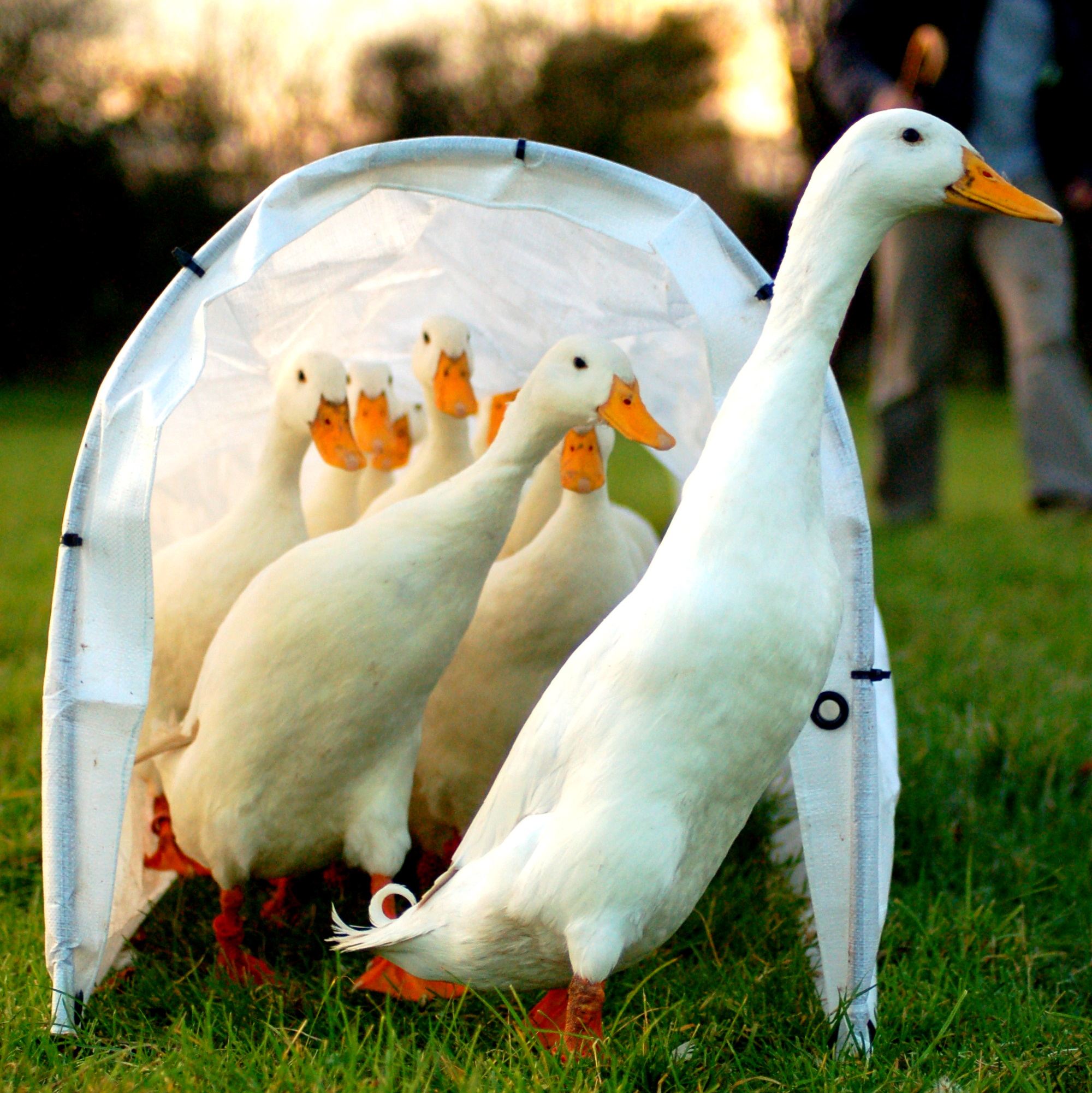 Herding ducks in the New Forest